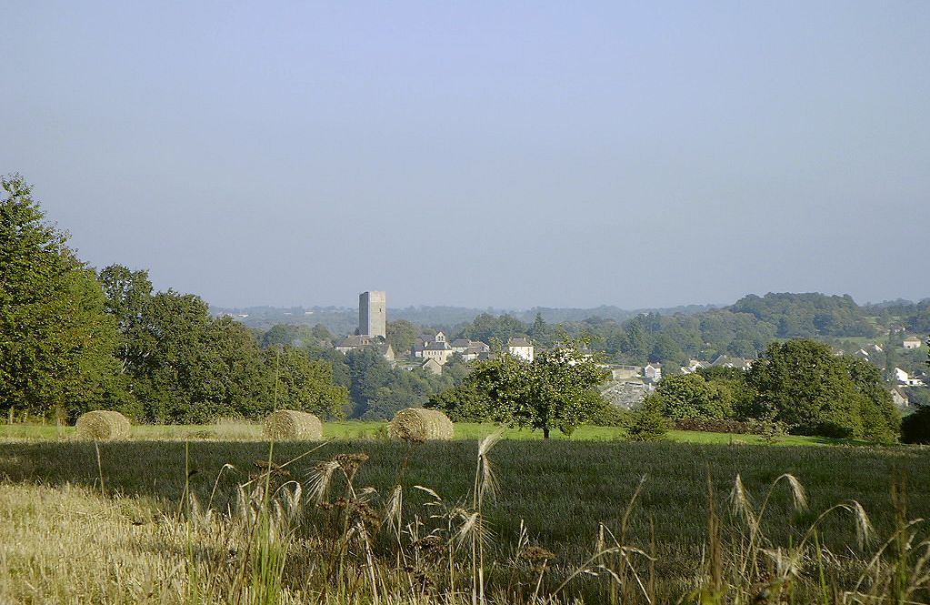 Chateau Chervix 554855